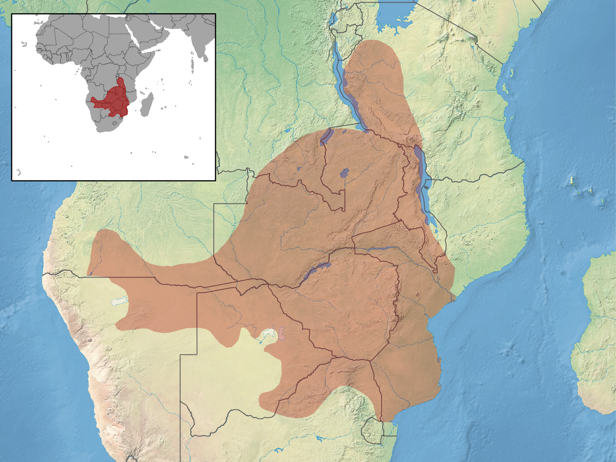 geographic distribution of Paraxerus cepapi